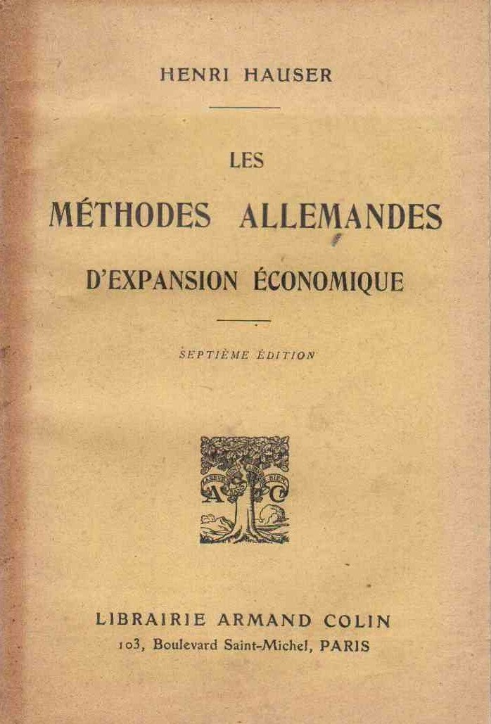 Title page of the 7th edition of Les Méthodes allemandes d'expansion économique by Henri Hauser (1866–1946). The first edition was published in 1915. This edition was published in 1917 [1].